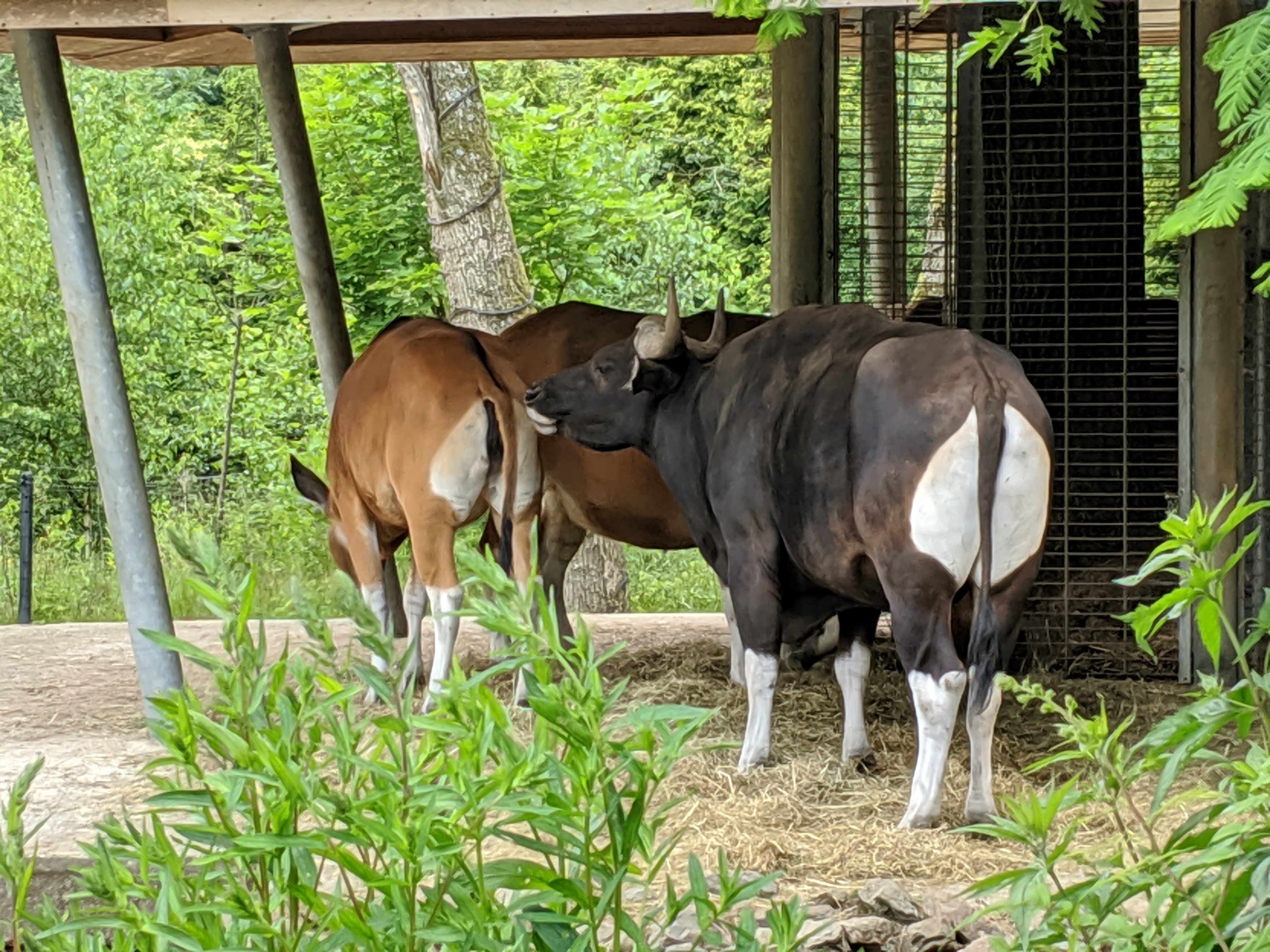 Bos javanicus in Burgers' Zoo